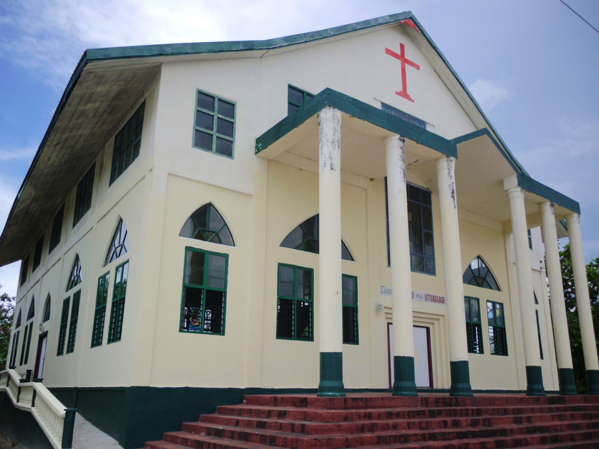 Church